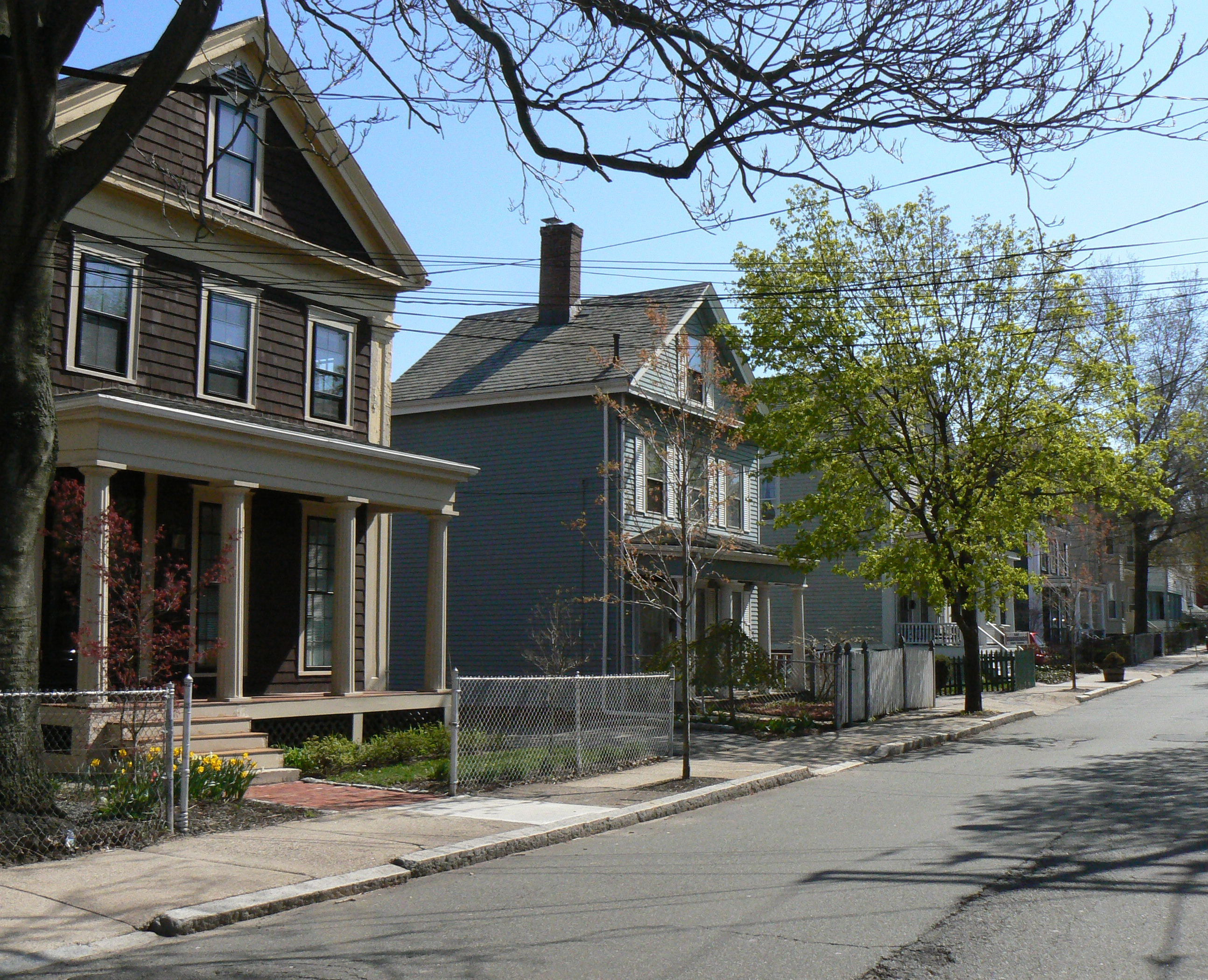 A photograph of Mount Vernon Street in the Mount Vernon Street Historic District of Somerville, Massachusetts.